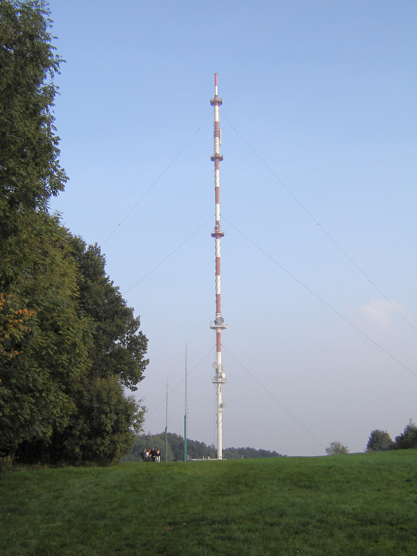 Transmitter mast on the Mont des Cats. Méteren, Nord, Nord-Pas-de-Calais, France